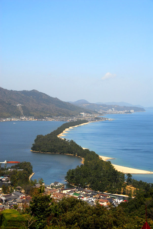 天橋立是一位於日本京都府宮津市範圍內的名勝，由於獨特的地理景觀，被譽稱為日本三景之一。圖中所見是由南面的天橋立觀景公園（天橋立Viewland，又稱為「飛龍觀」往北眺望的景象）。 Amanohashidate is a famous sight-seeing spot in City of Miyazu, Kyoto. Amanohashidate is reknown as one of the Three Views of Japan.